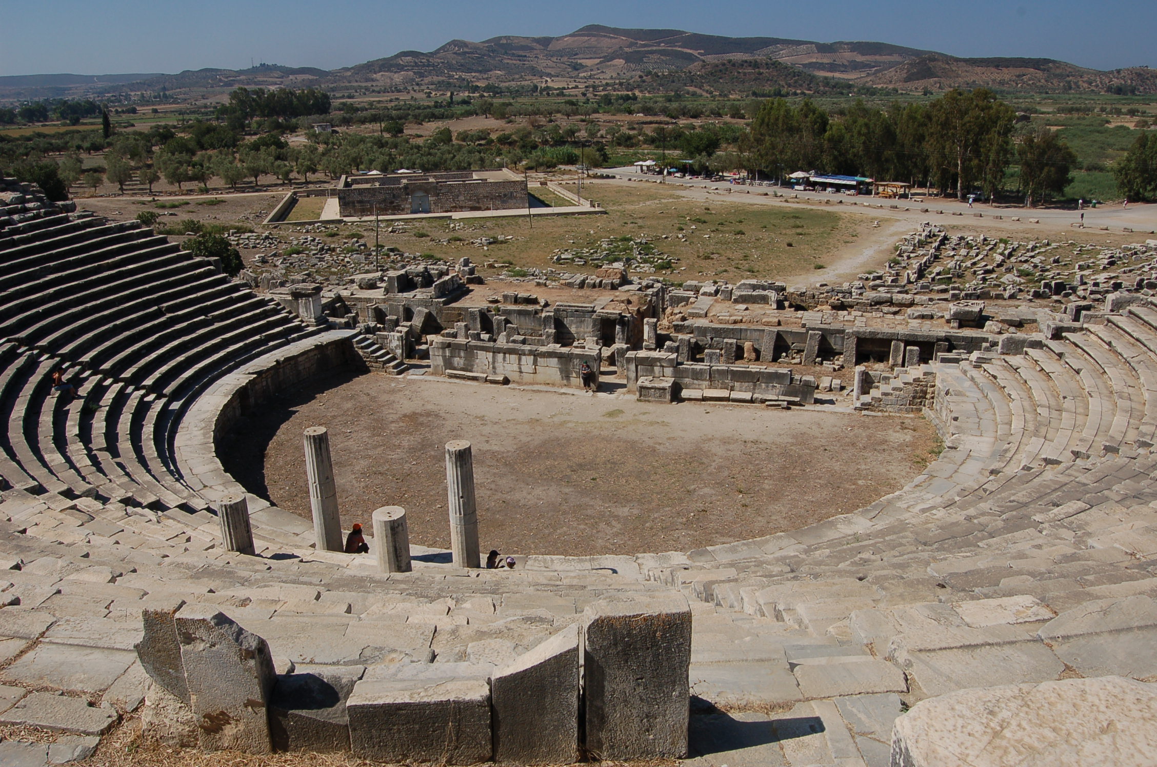 The ancient theatre of Miletus - view from the top